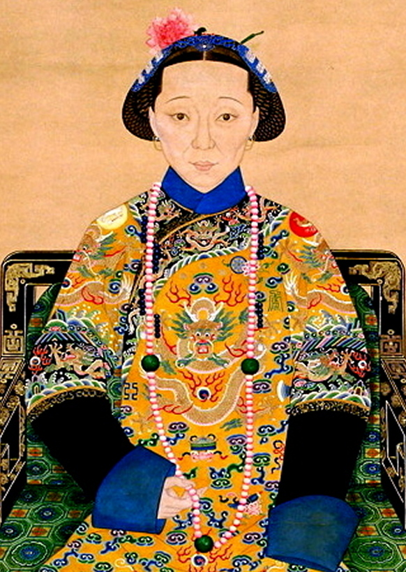 Portrait of Empress Dowager Ci'an